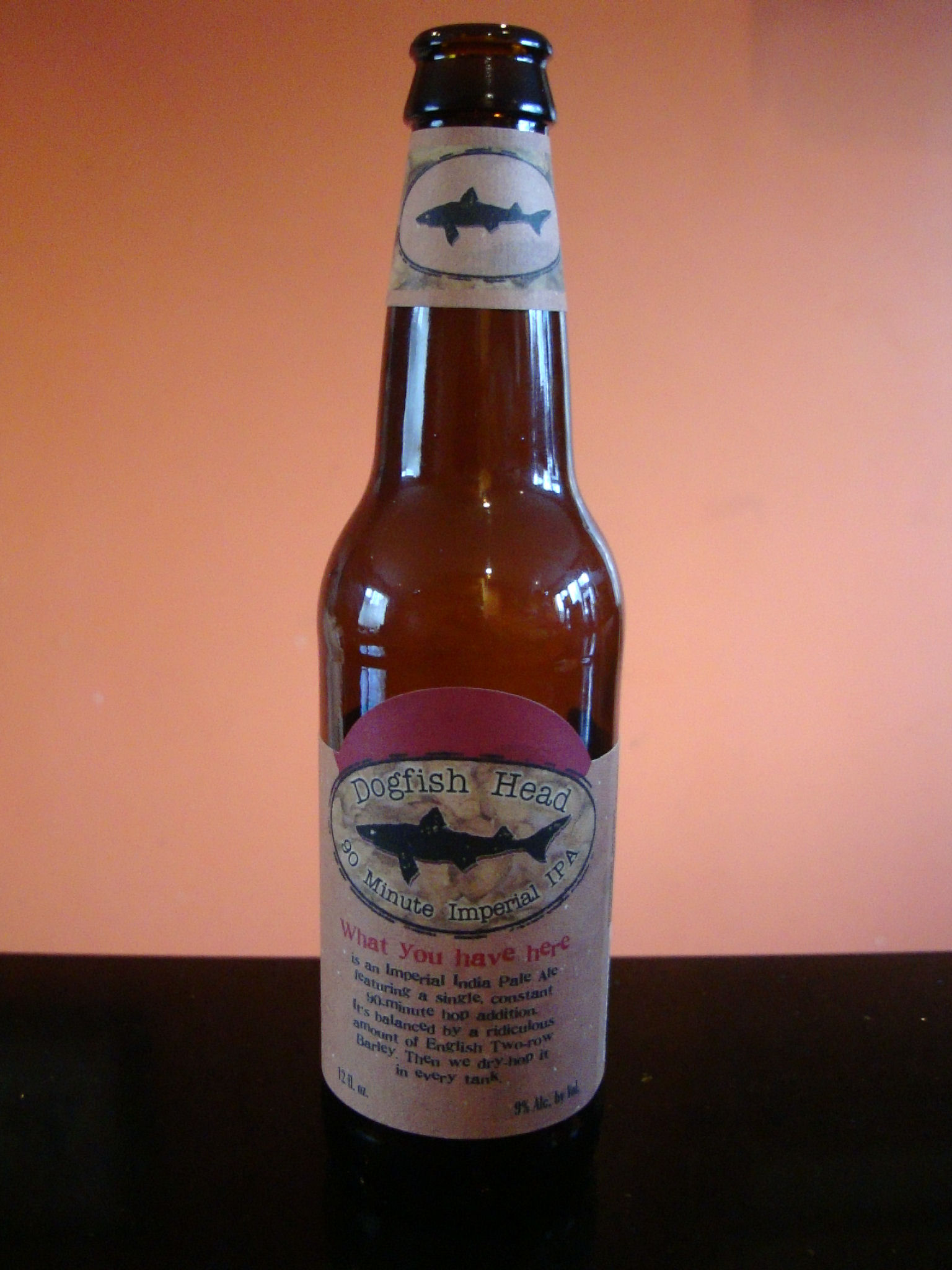 Bottle of Dogfish Head 90 minute Imperial India Pale Ale. Empty.